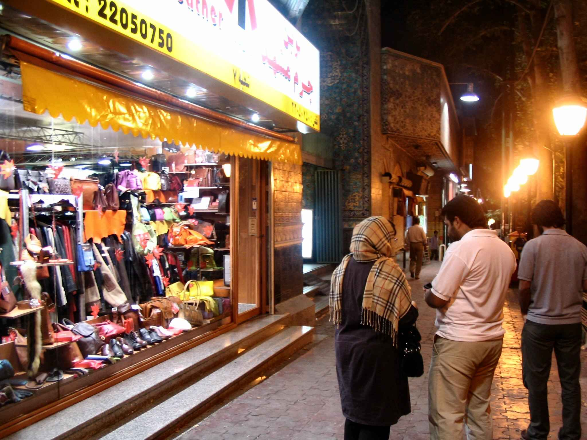 Vali Asr Ave., Tehran